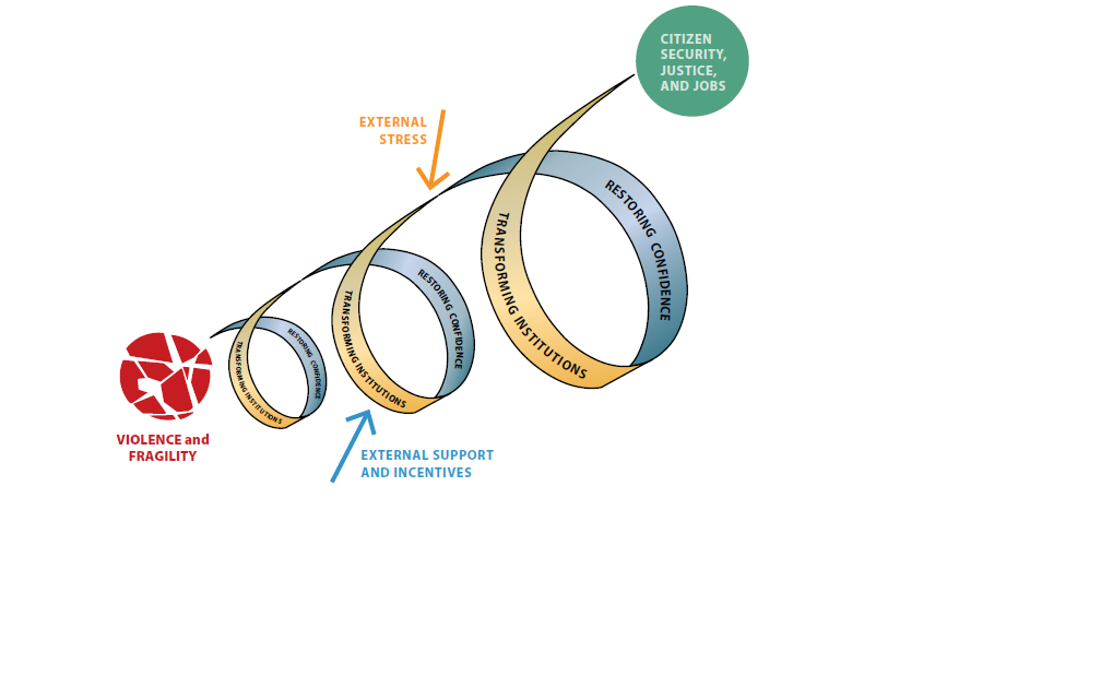 The 2011 WDR conflict resolution framework